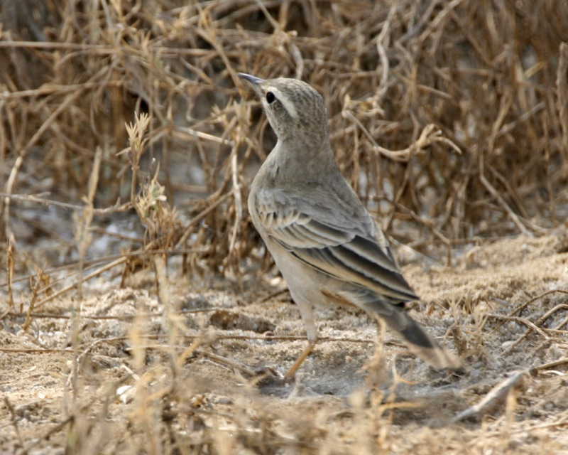 Long-billed Pipit / Persian Rock Pipit Anthus similis decaptus November 28, 2006 Little Rann of Kutch, Gujerat, India Distribution: Persian Rock Pipit (Anthus similis decaptus) Long-billed Pipit (Anthus similis) _Q0S1997